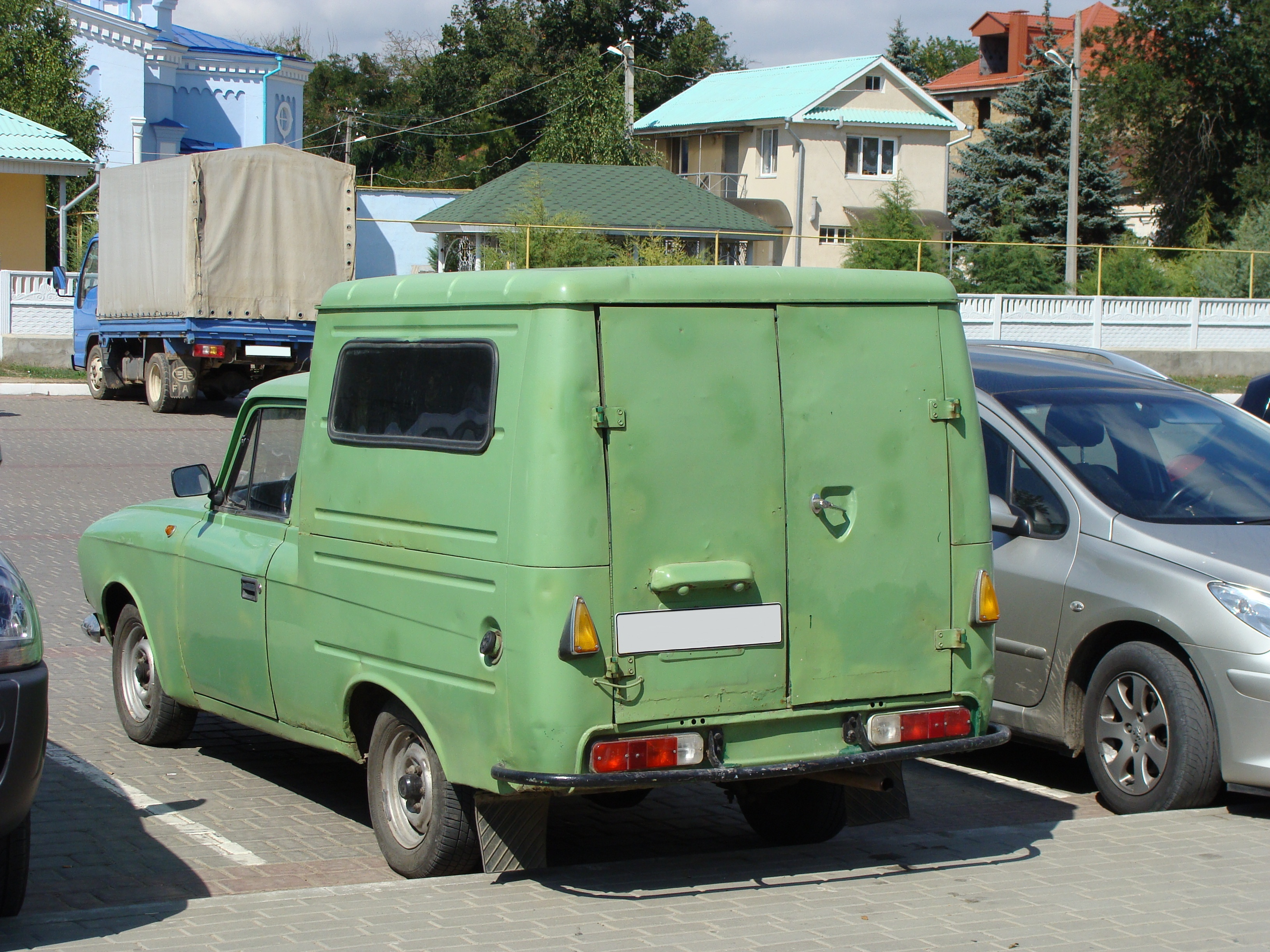 IZh-2715-01 van rebuilt with side windows (this is not factory-made cargo-passenger IZh-27156, which has bigger windows).